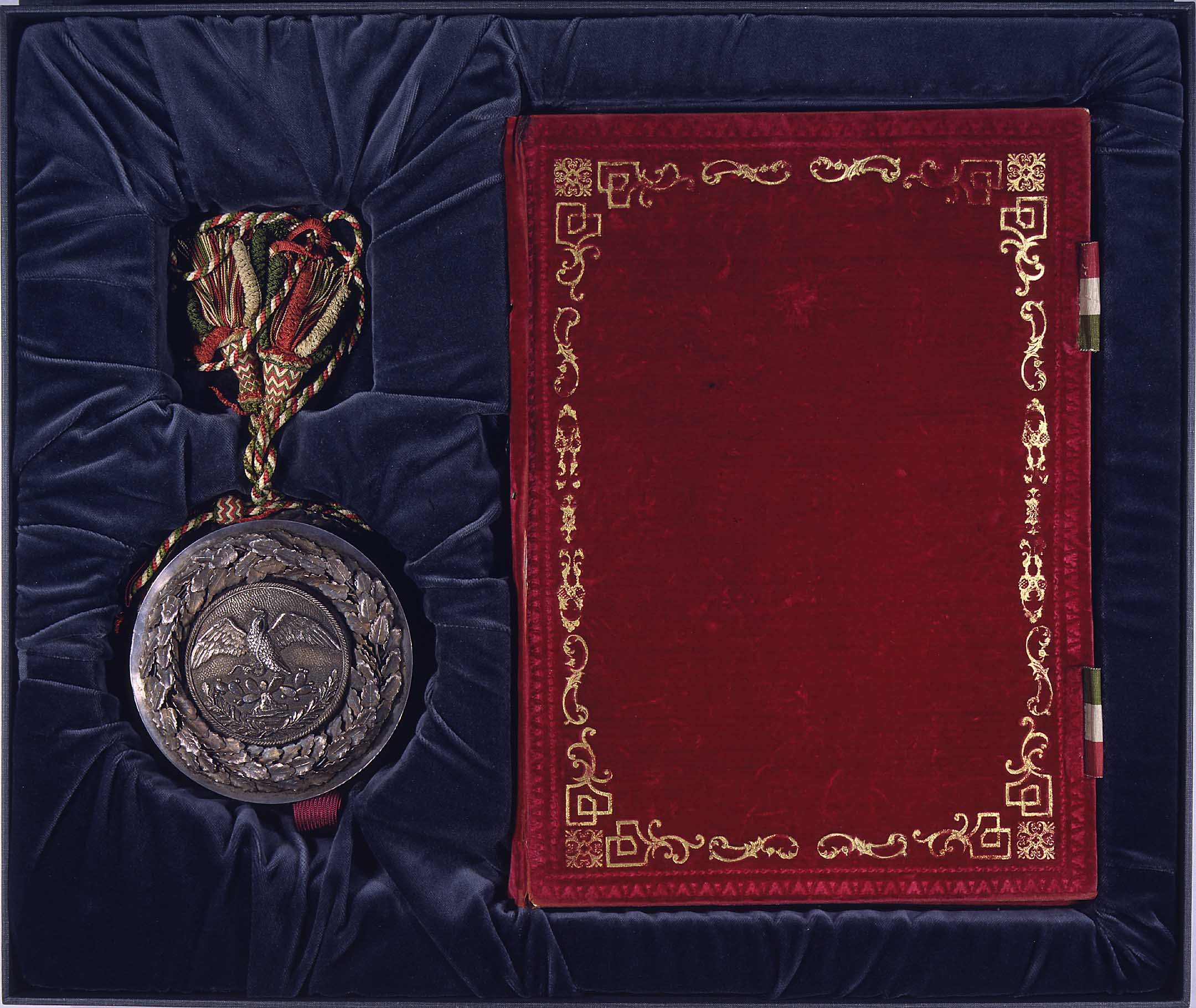 Treaty of Guadalupe Hidalgo, Exchange Copy, cover. Treaty ending USA-Mexico War in 1848 and transfering large amount of territory from Mexico to USA.